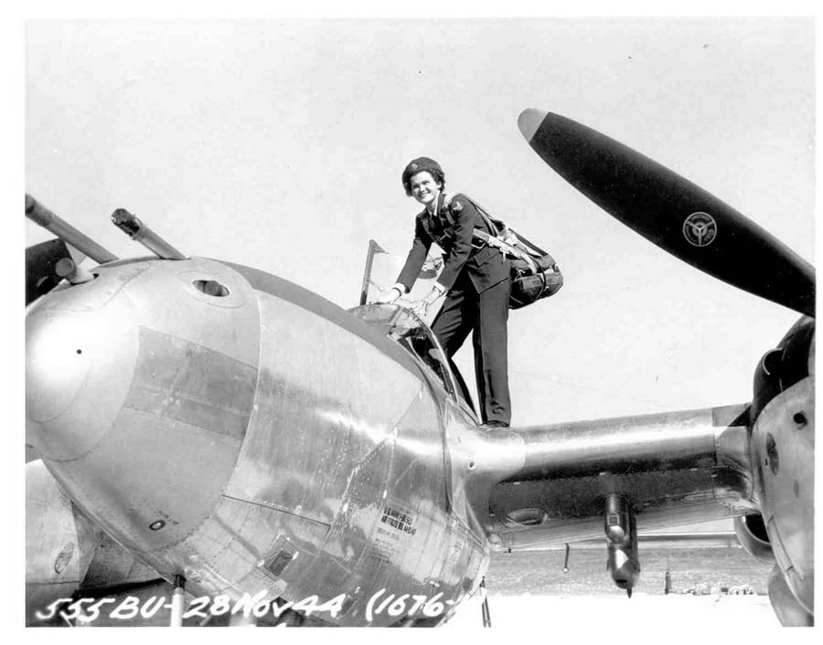 Women Airforce Service Pilot Ruth Daley boards an Lockheed P-38 Lightning fighter